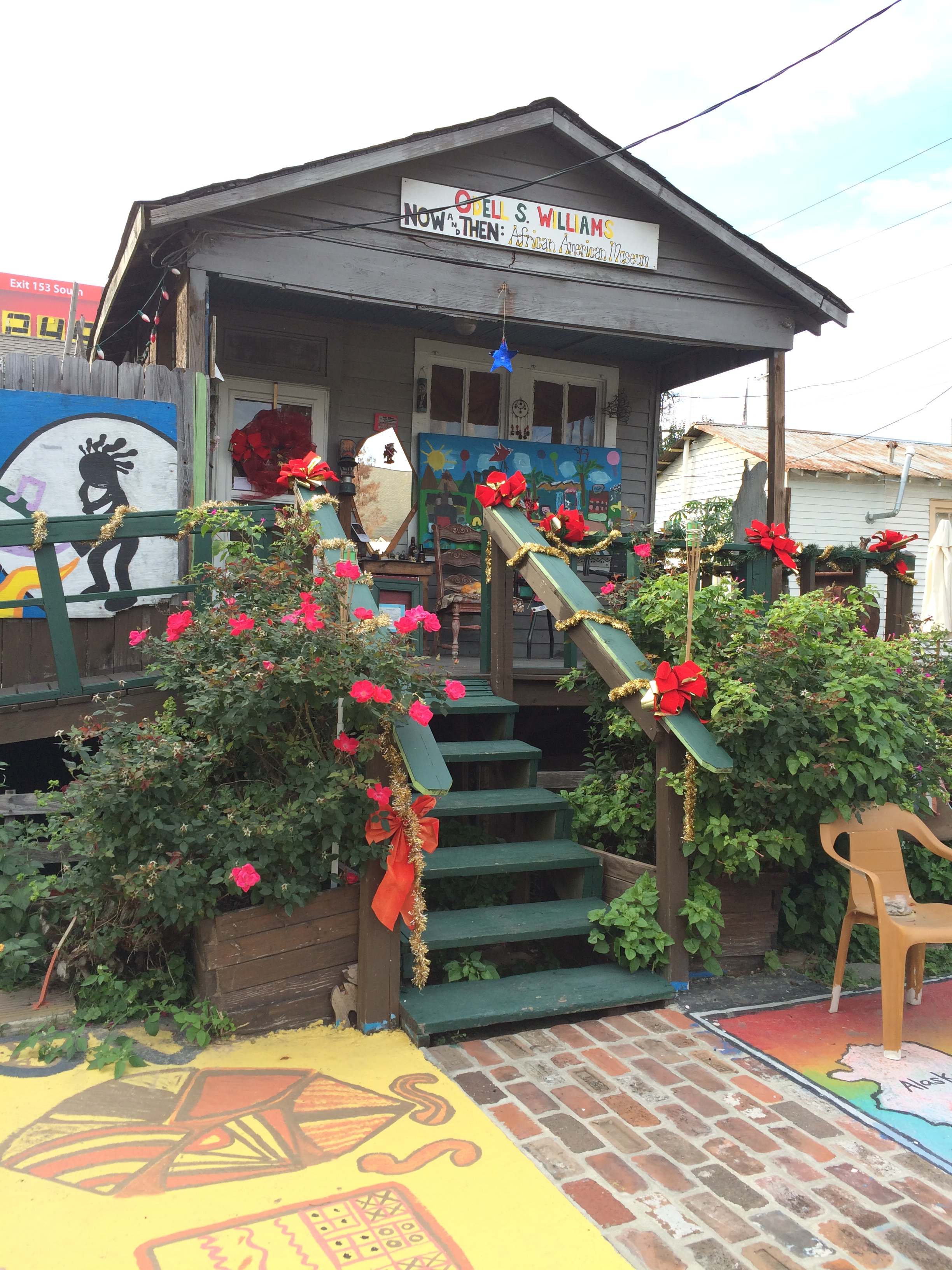 Exterior view of the Baton Rouge African American Museum